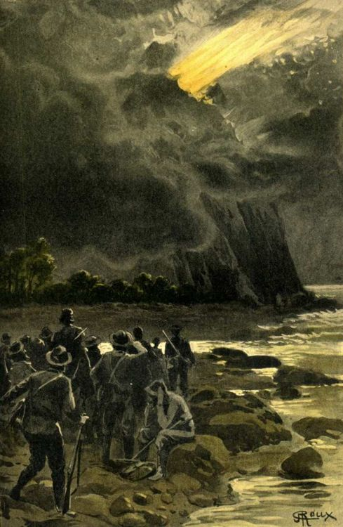 An illustration from Jules Verne's novel "The Golden Volcano" (or "Volcano of Gold", 1906) drawn by George Roux.